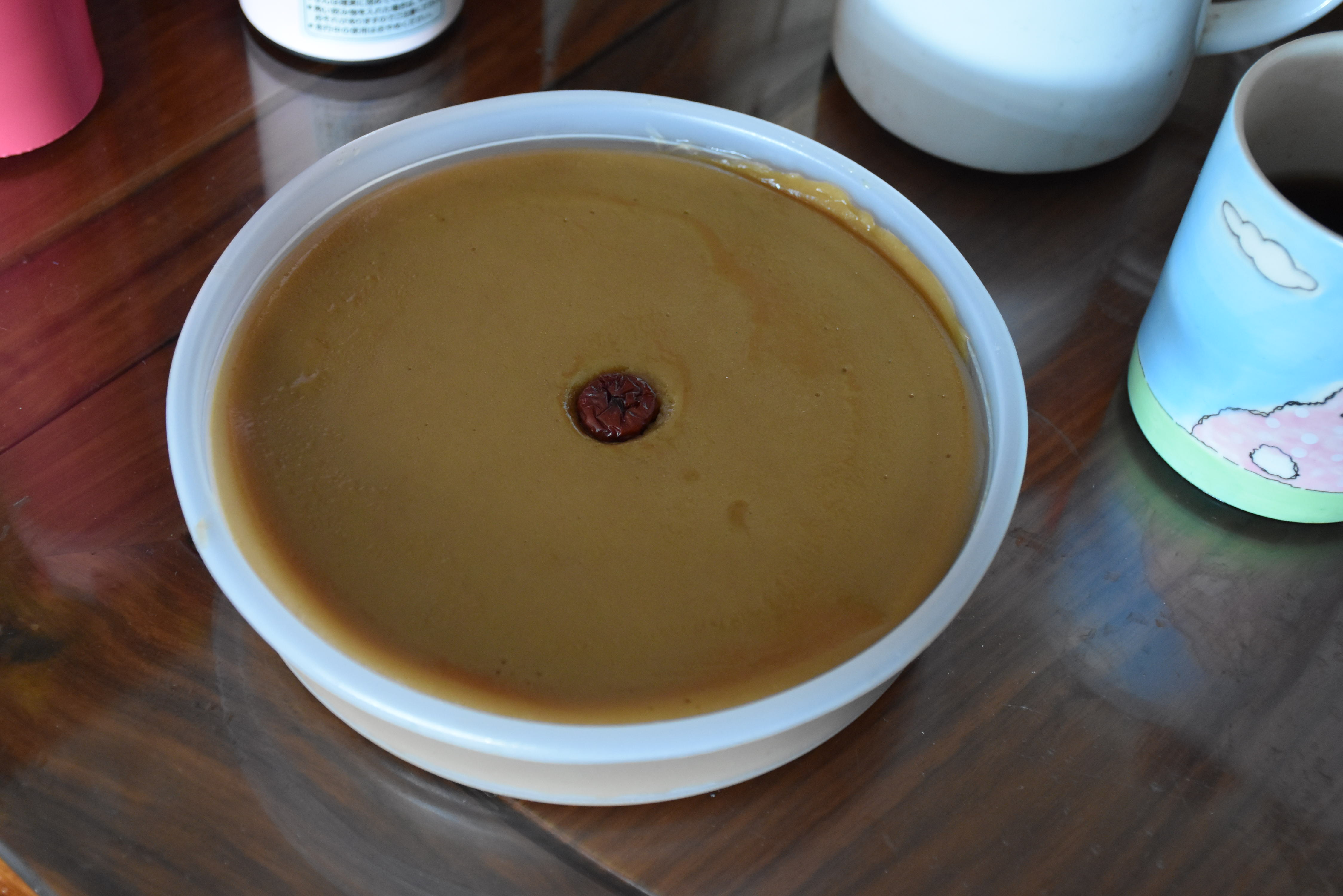 Niangao with local chinese style in Tai Kon Bakery at yuen long